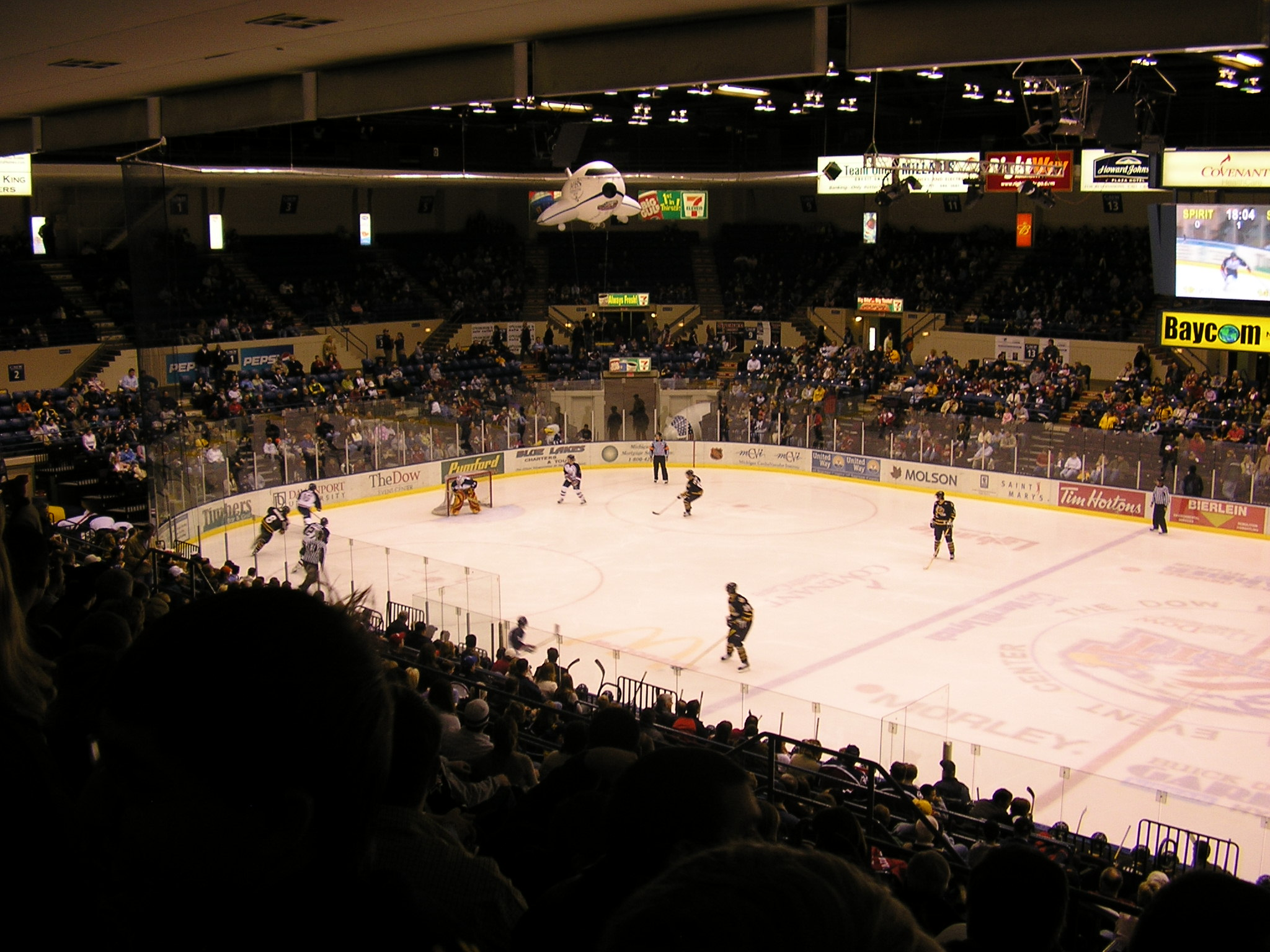 Wendler Arena, part of The Dow Event Center in Saginaw, Michigan. Hockey game pictured is Sarnia Sting versus the Saginaw Spirit (home team). Spirit wins 5-2.